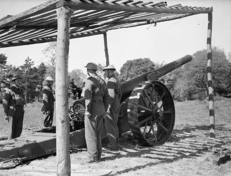 The British Army in the United Kingdom 1939-45 56th Heavy Regiment, Royal Artillery, practising with 6 inch guns at Hastings, Sussex, 1940.